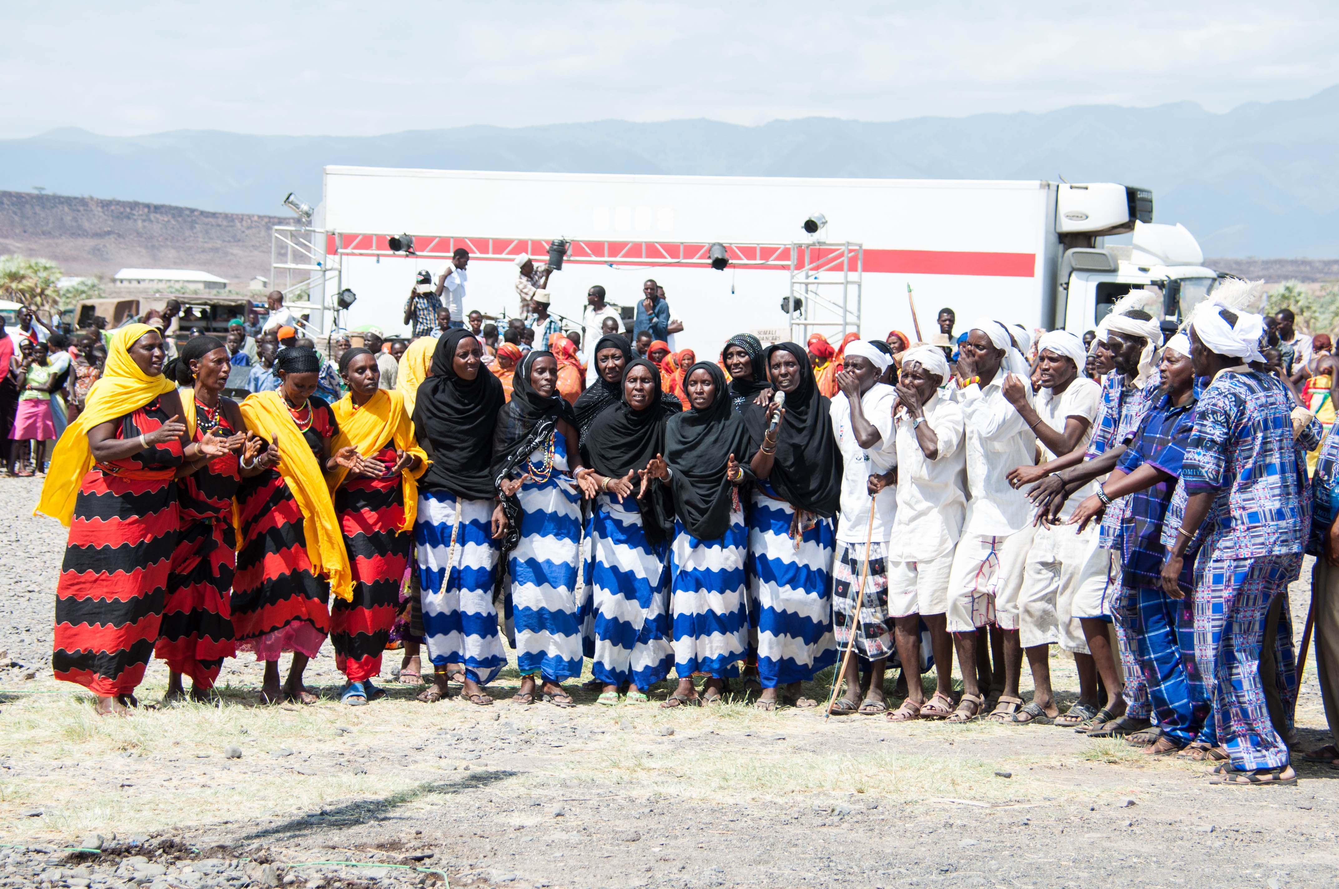 Turkana cultural Festival, Kenya 2016 This is an image of music and dance from Kenya